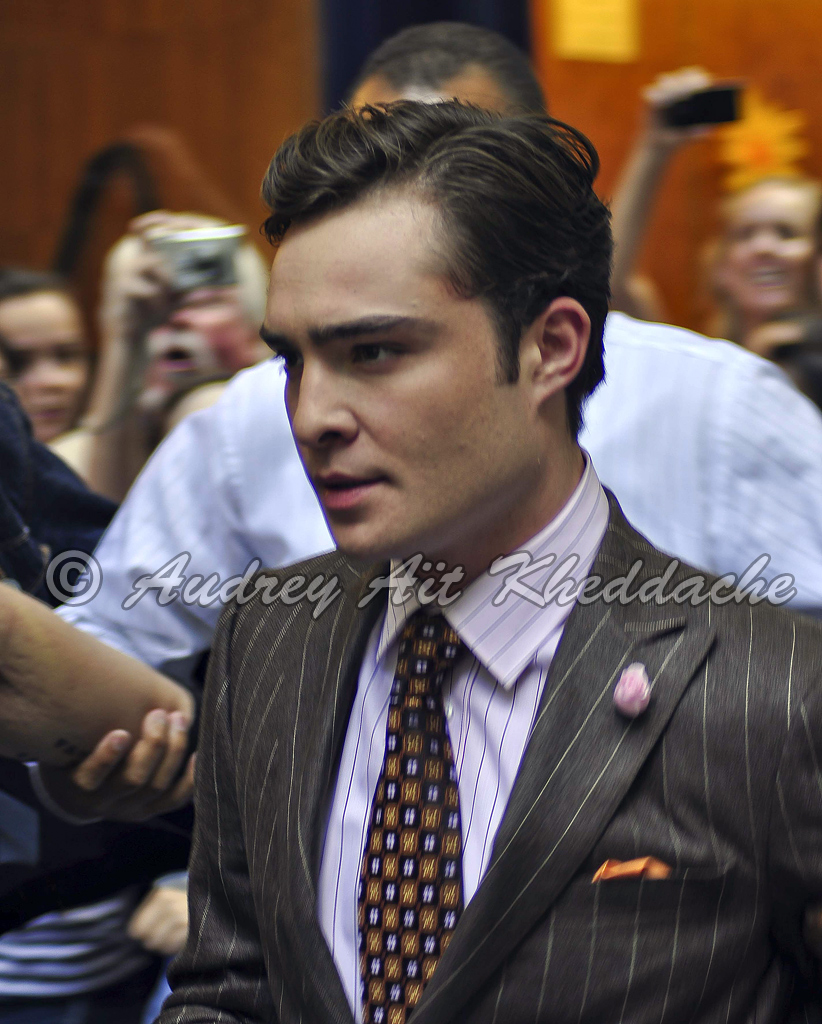 Actor Ed Westwick on the set of Gossip Girl season 4 on the 6th July 2010.